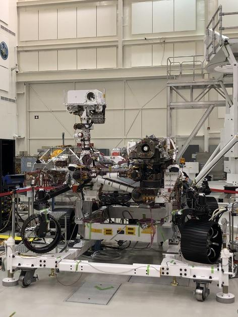 PIA23318: Mars 2020 Rover on Stand This image of NASA's Mars 2020 rover was taken on July 23, 2019 in the Spacecraft Assembly Facility's High Bay 1 at the Jet Propulsion Laboratory in Pasadena, California. JPL is building and will manage operations of the Mars 2020 rover for the NASA Science Mission Directorate at the agency's headquarters in Washington. For more information about the mission, go to